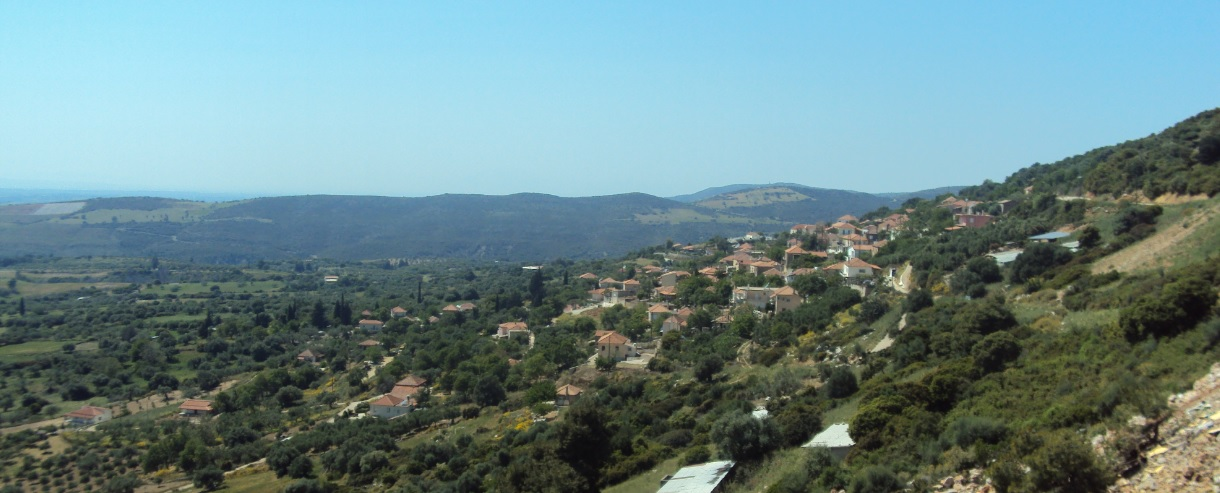 Partial view of Portes village, Achaia, Greece.